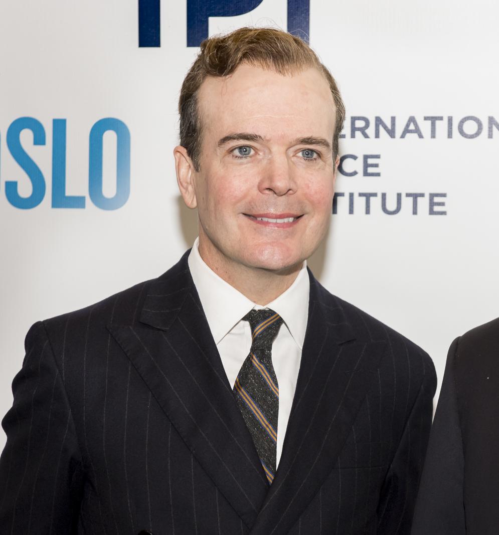 International Peace Institute President Terje Rød-Larsen in conversation after a special performance of "OSLO" hosted by IPI. Photo credit: International Peace Institute.